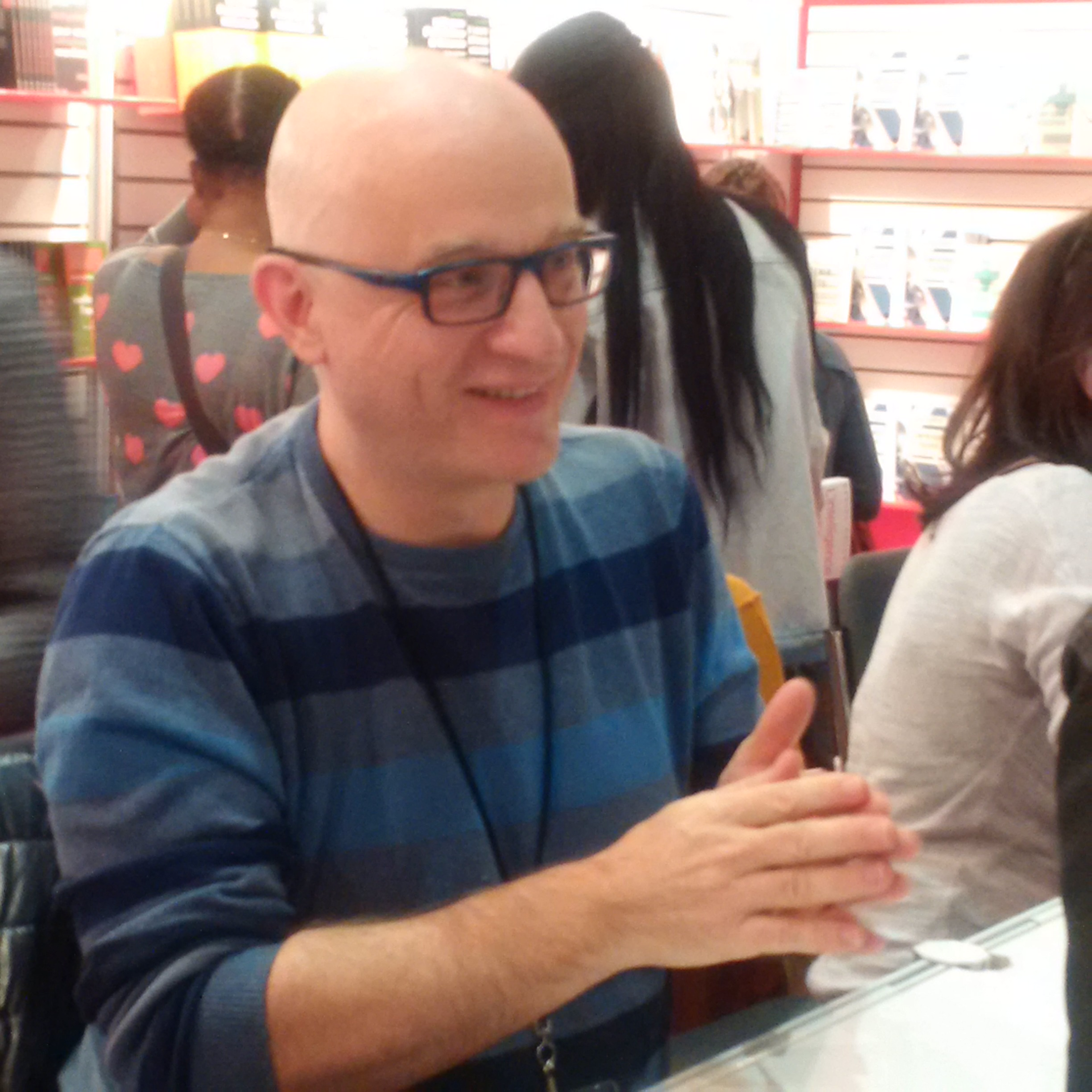 Physician and author Alain Vadeboncoeur at the 2017 Salon du livre de Montréal.